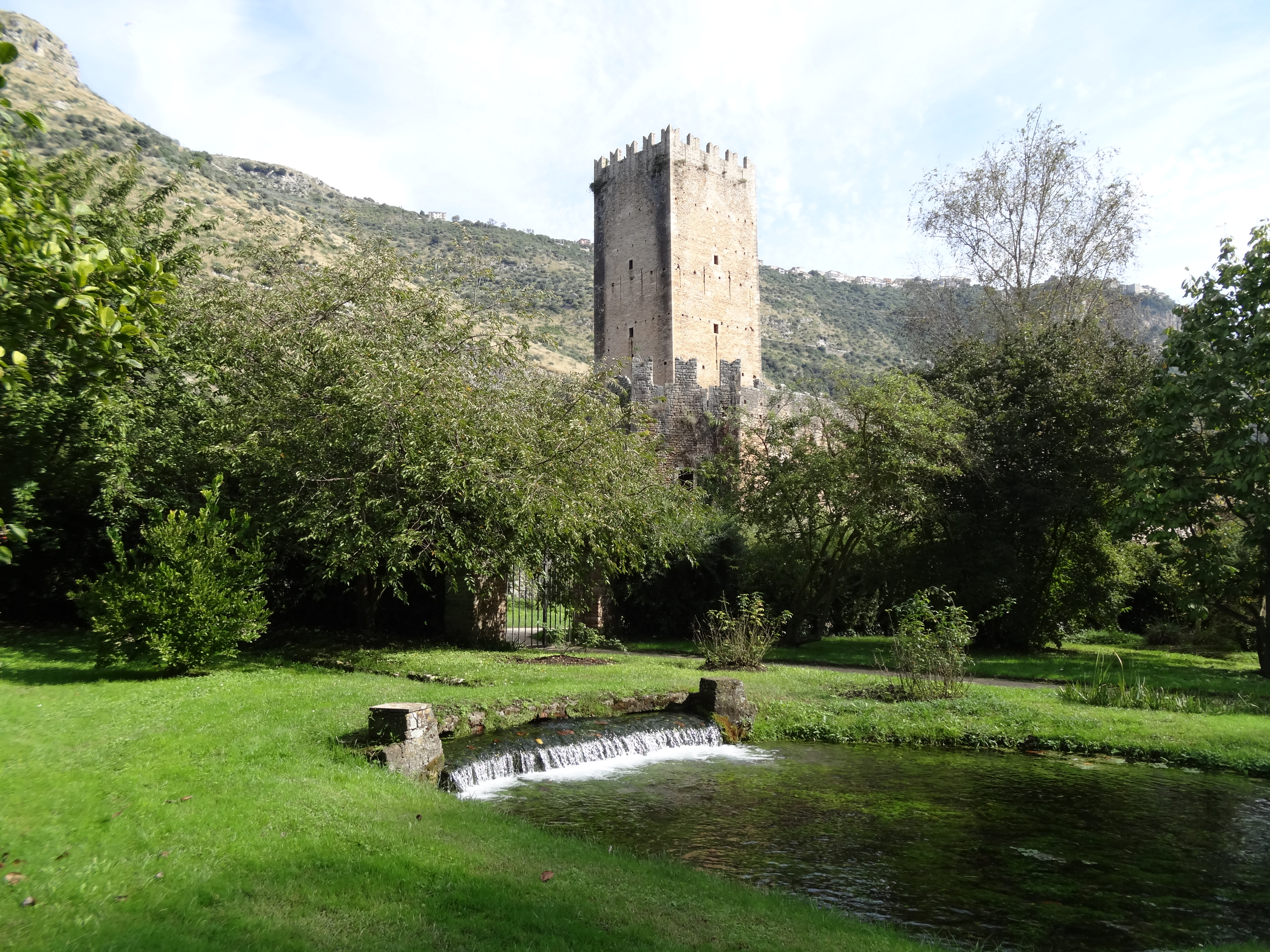 Ninfa Garden